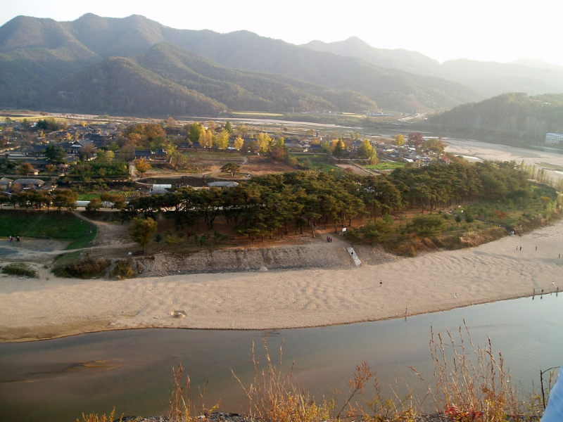 Hahoe Folk Village located in Andong, South Korea